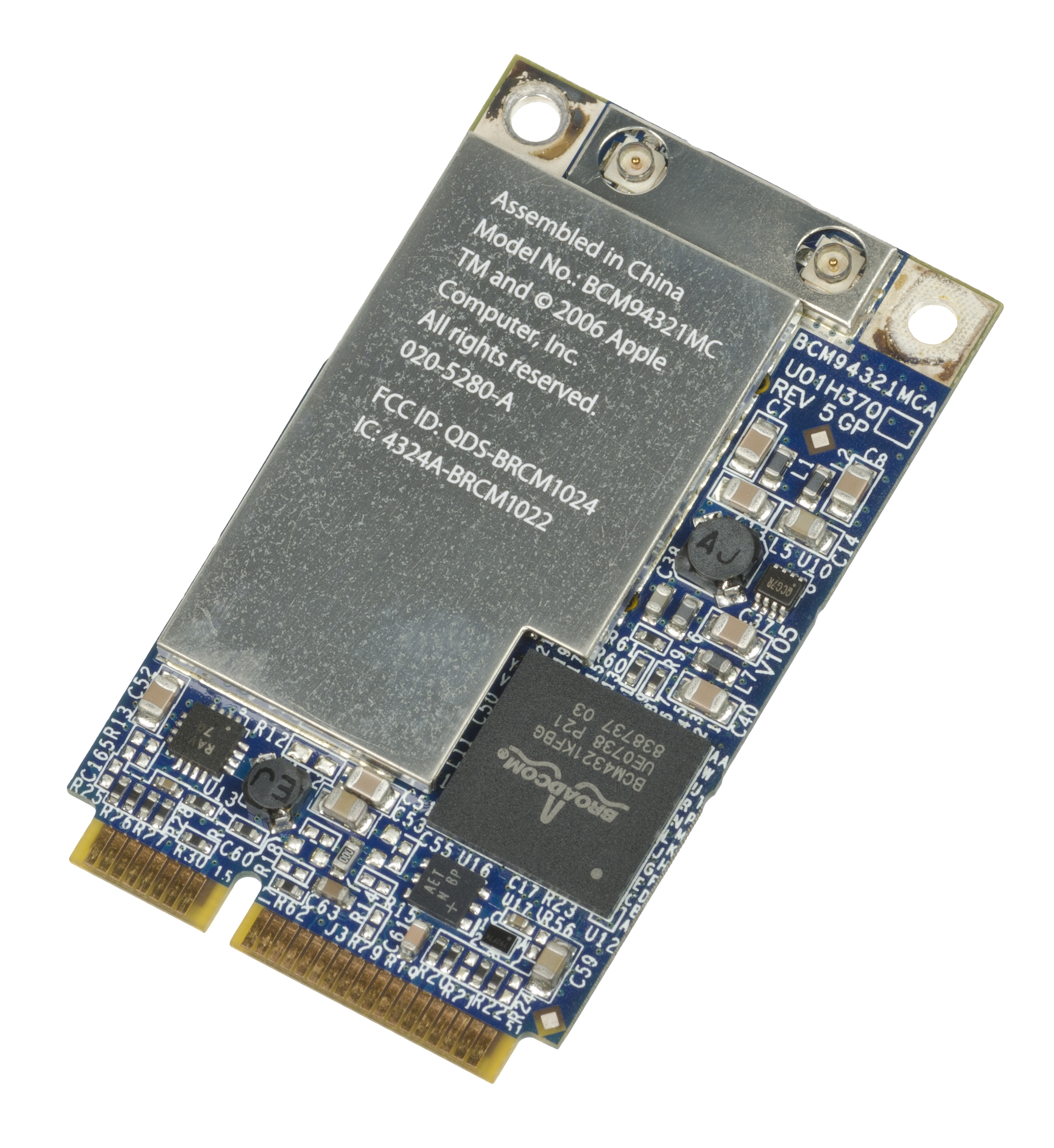 The Airport Extreme 802.11g Wi-FI adapter pulled from an Apple MacBook (late 2007 model).